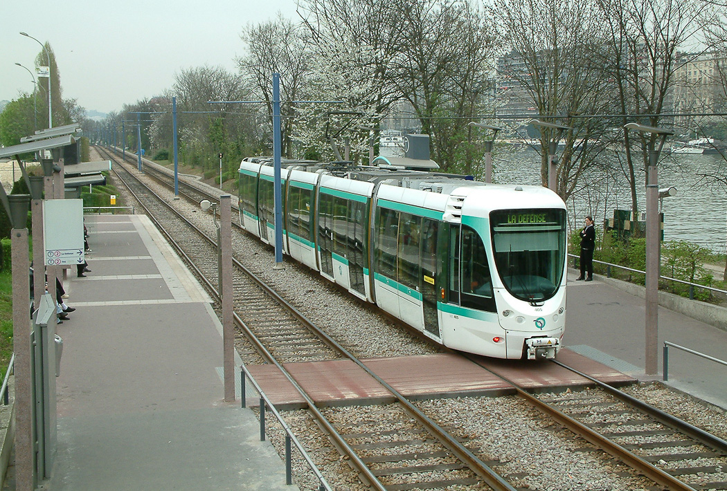 Tramway (to La Défense) at Musée de Sèvres station.